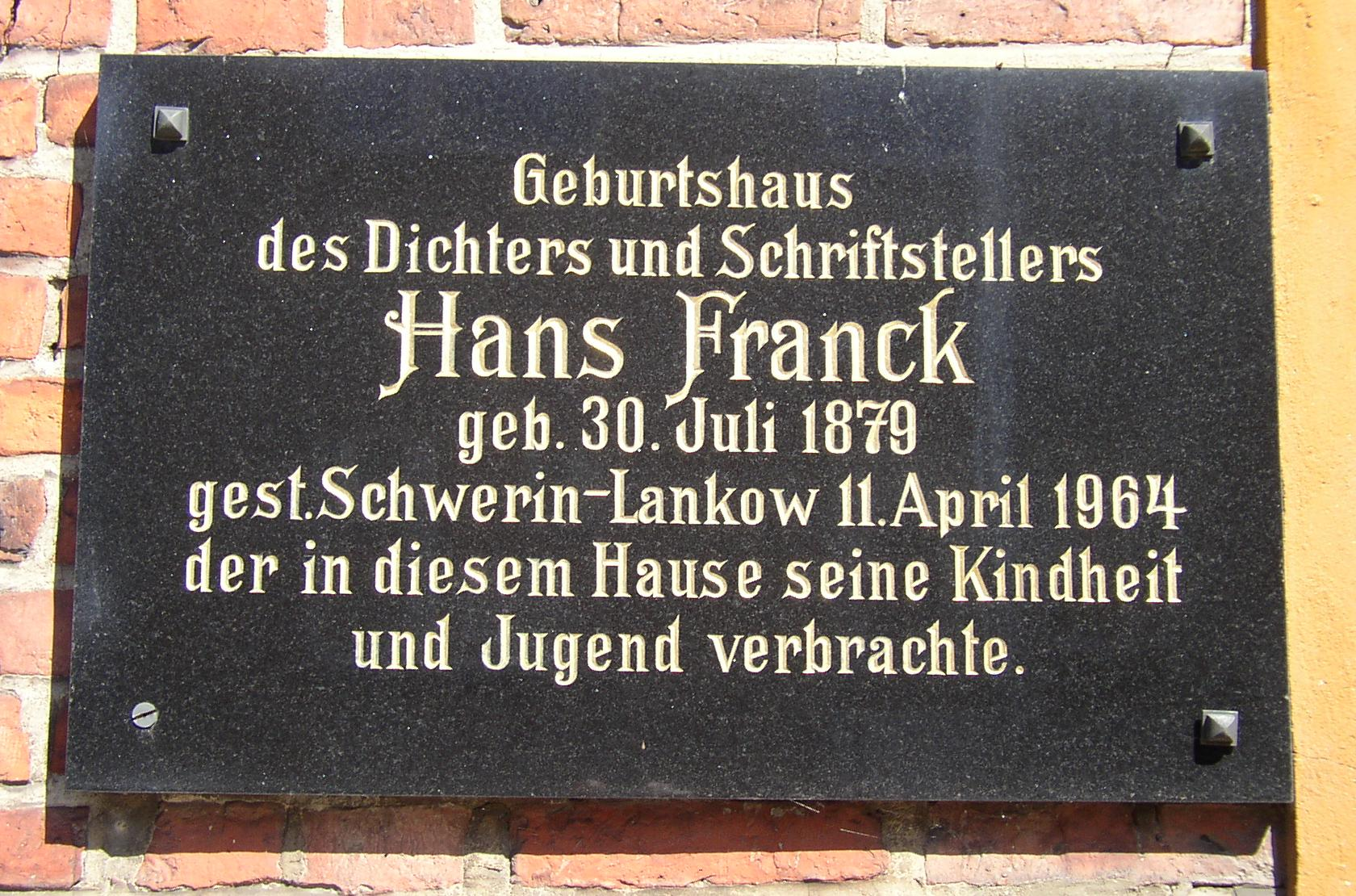 Memorial plaque for Hans Franck in Wittenburg in Mecklenburg-Western Pomerania, Germany